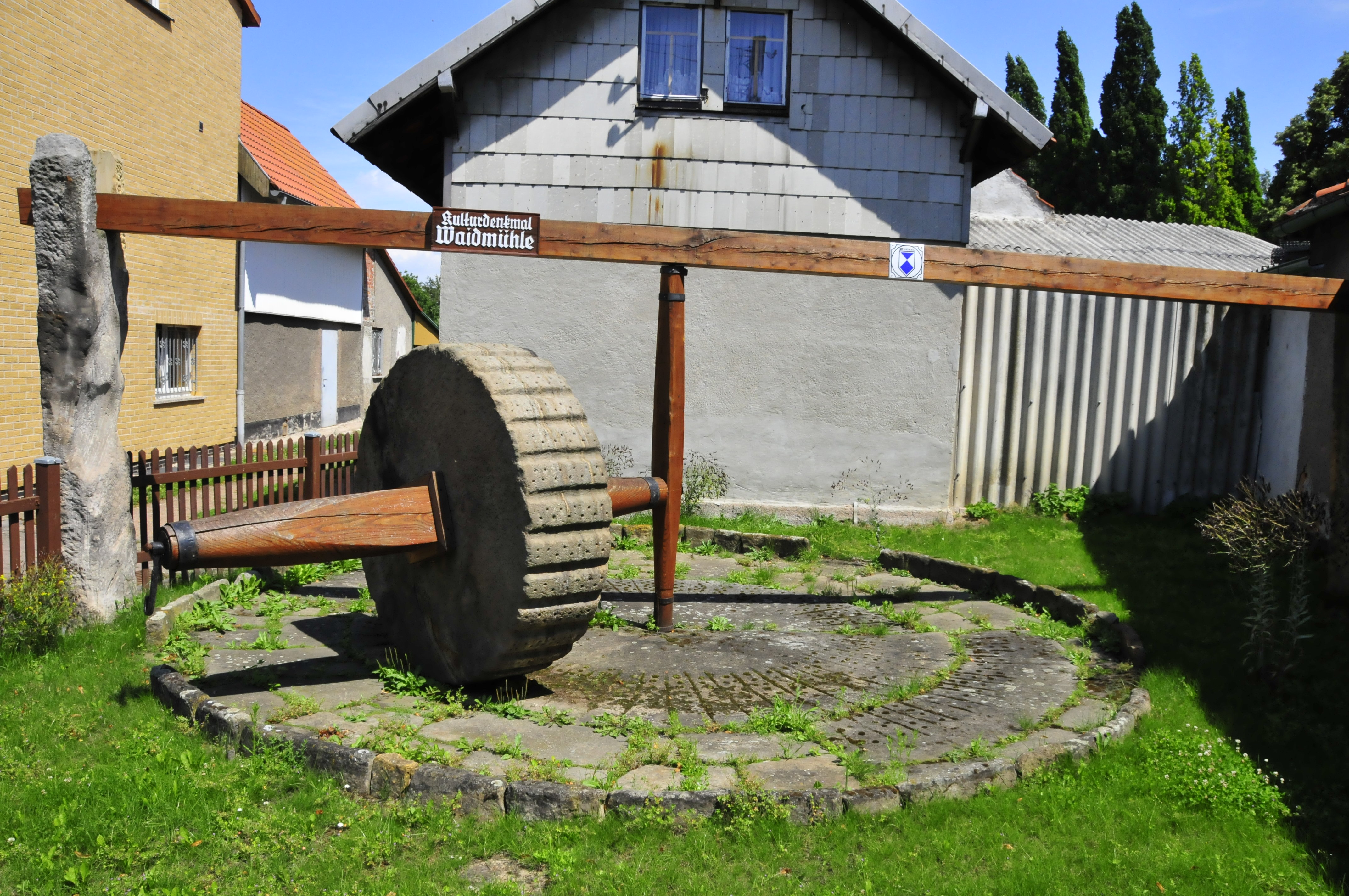 Pferdingsleben, waid-mill